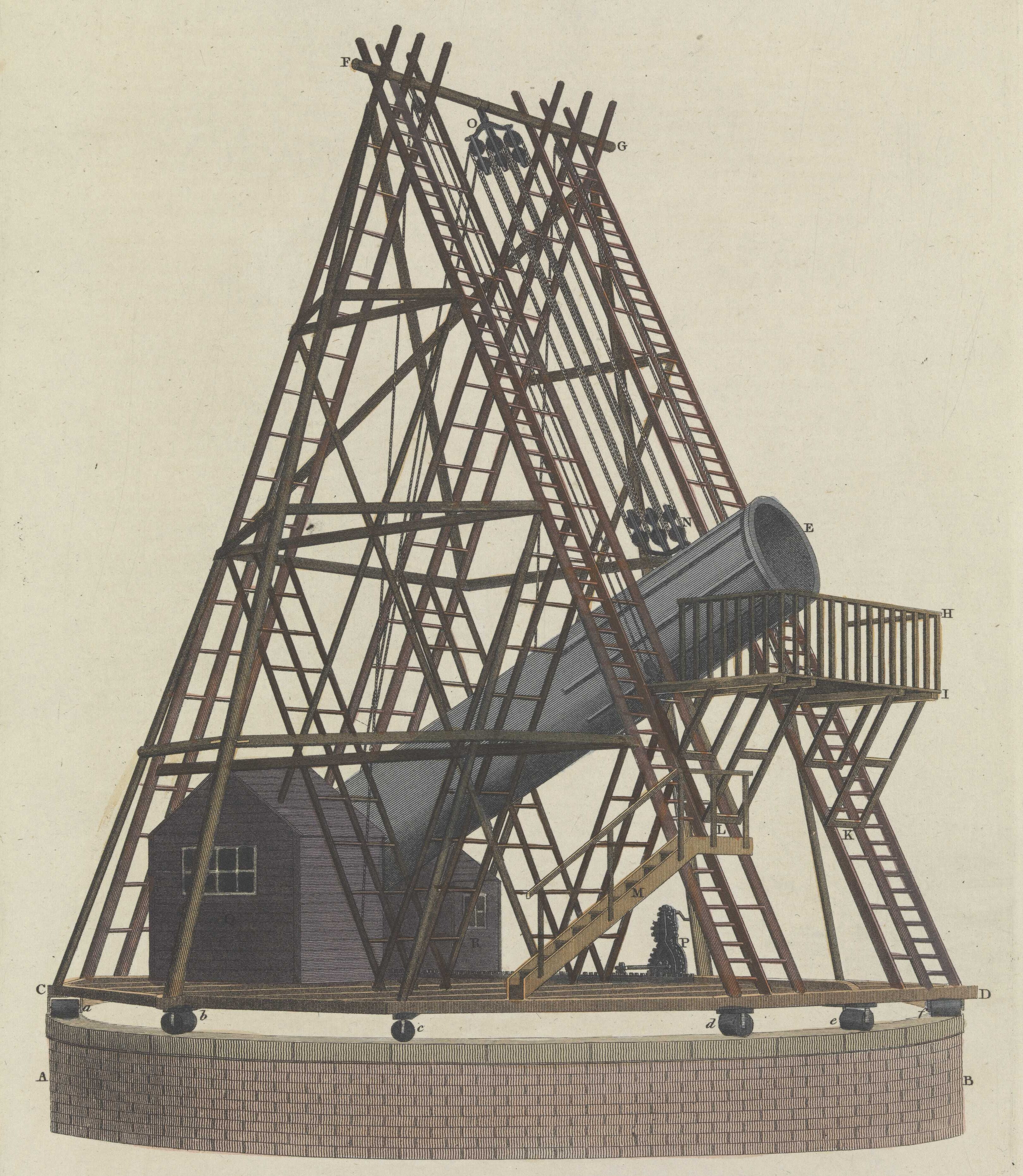 Herschel's Grand Forty feet Reflecting Telescopes A hand-coloured illustration of William Herschel's massive reflecting telescope with a focal length of forty feet, which was erected at his home in Slough. Completed in 1789, the telescope became a local tourist attraction and was even featured on Ordnance Survey maps. By 1840, however, it was no longer used and was dismantled, although part of it is now on display at the Royal Observatory, Greenwich. This image of the telescope was engraved for the Encyclopedia Londinensis in 1819 as part of its treatment of optics. Herschel's Grand Forty feet Reflecting Telescopes